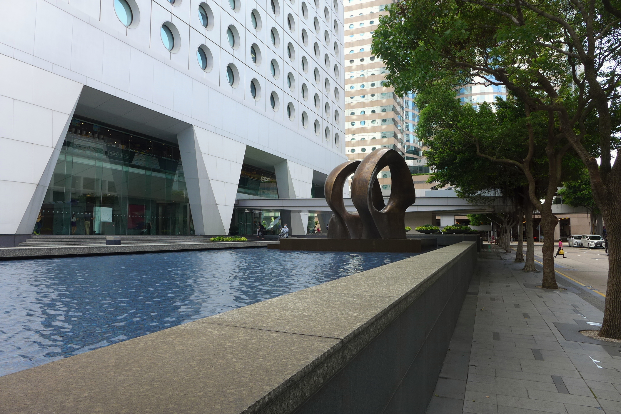 Connaught Garden